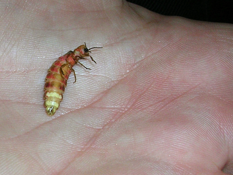 Firefly on Etna (Sicily) Not genus Luciola. Dysmorodrepanis (talk) 00:06, 21 July 2008 (UTC)